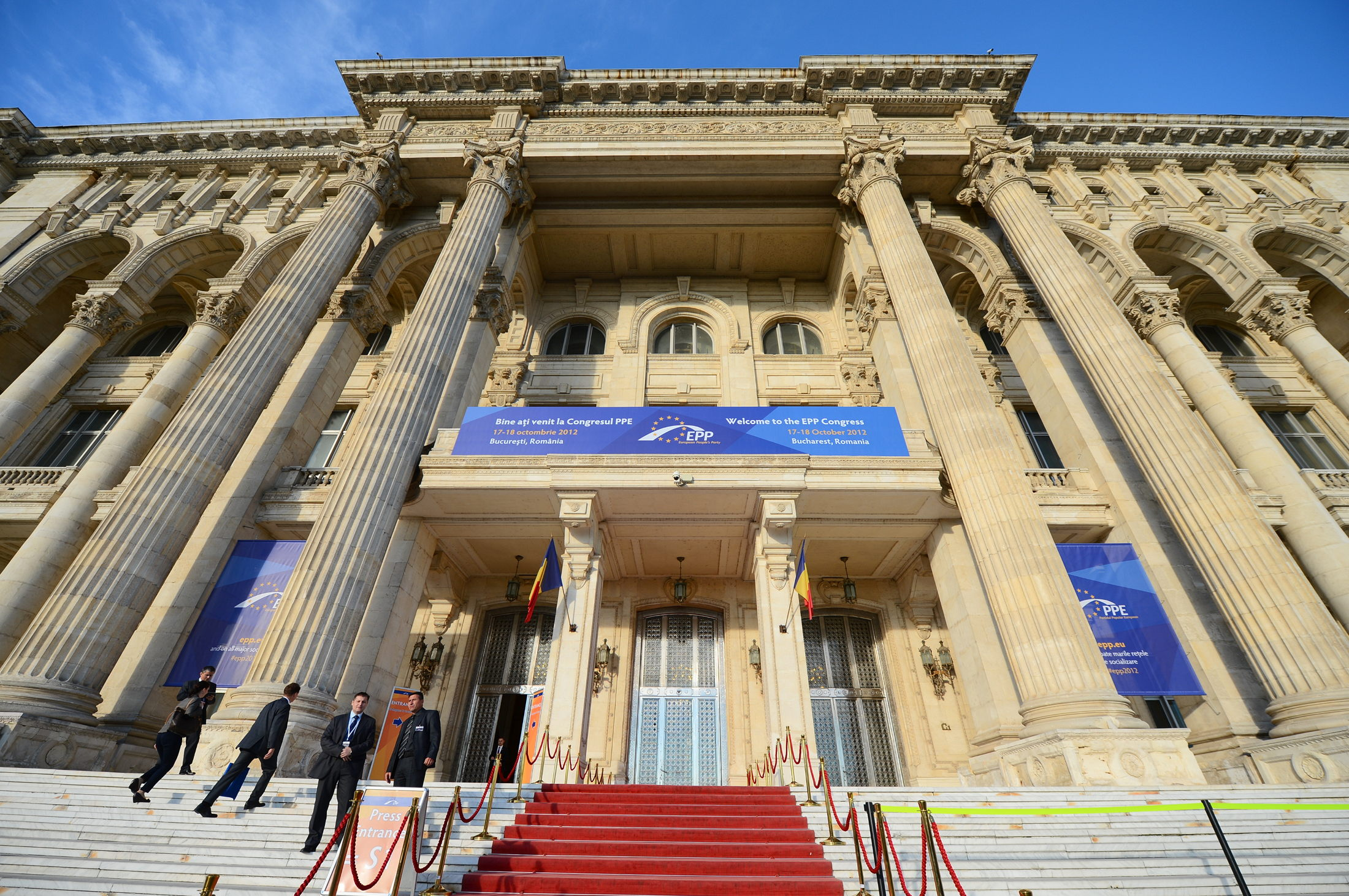 EPP_Congress_1831